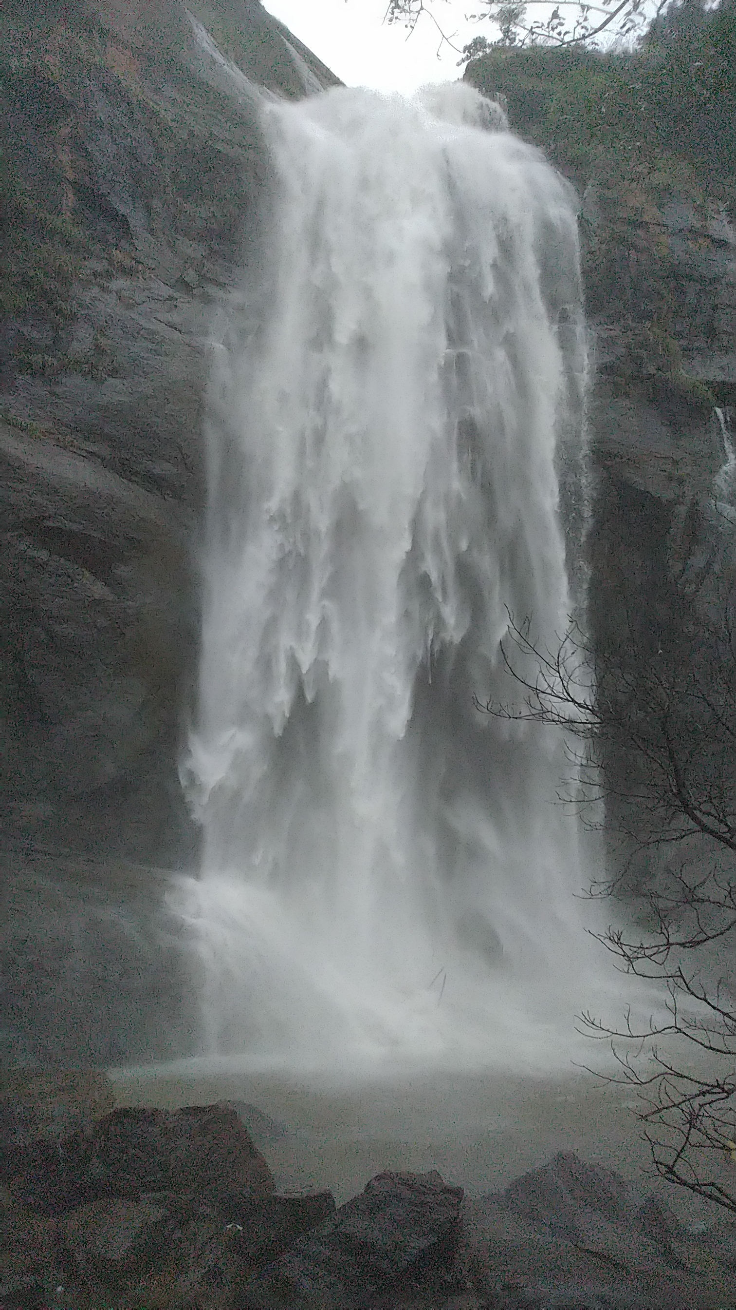 The Agaya Gangai waterfalls on Kolli Hills in full flow during October 2019